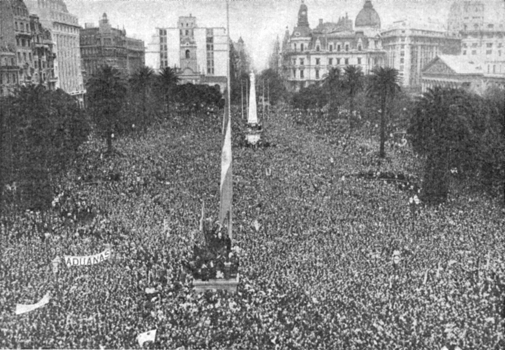 Peronist demonstration in Plaza de Mayo during the first Perón government.